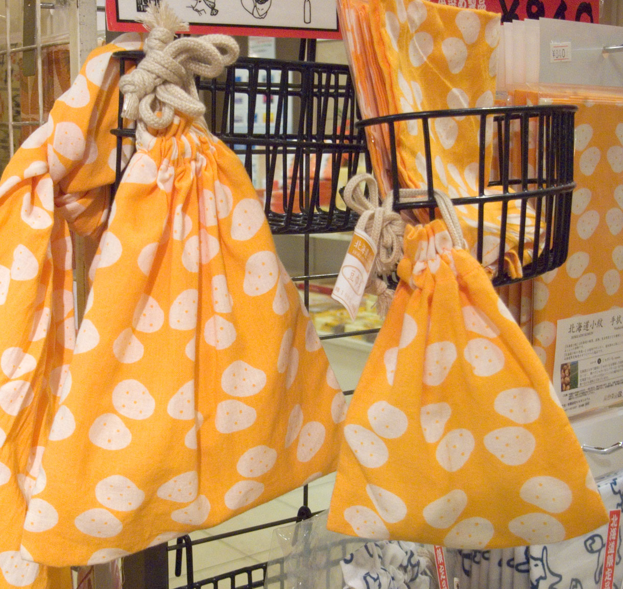 Kinchaku sack, Sapporo, Hokkaido, Japan